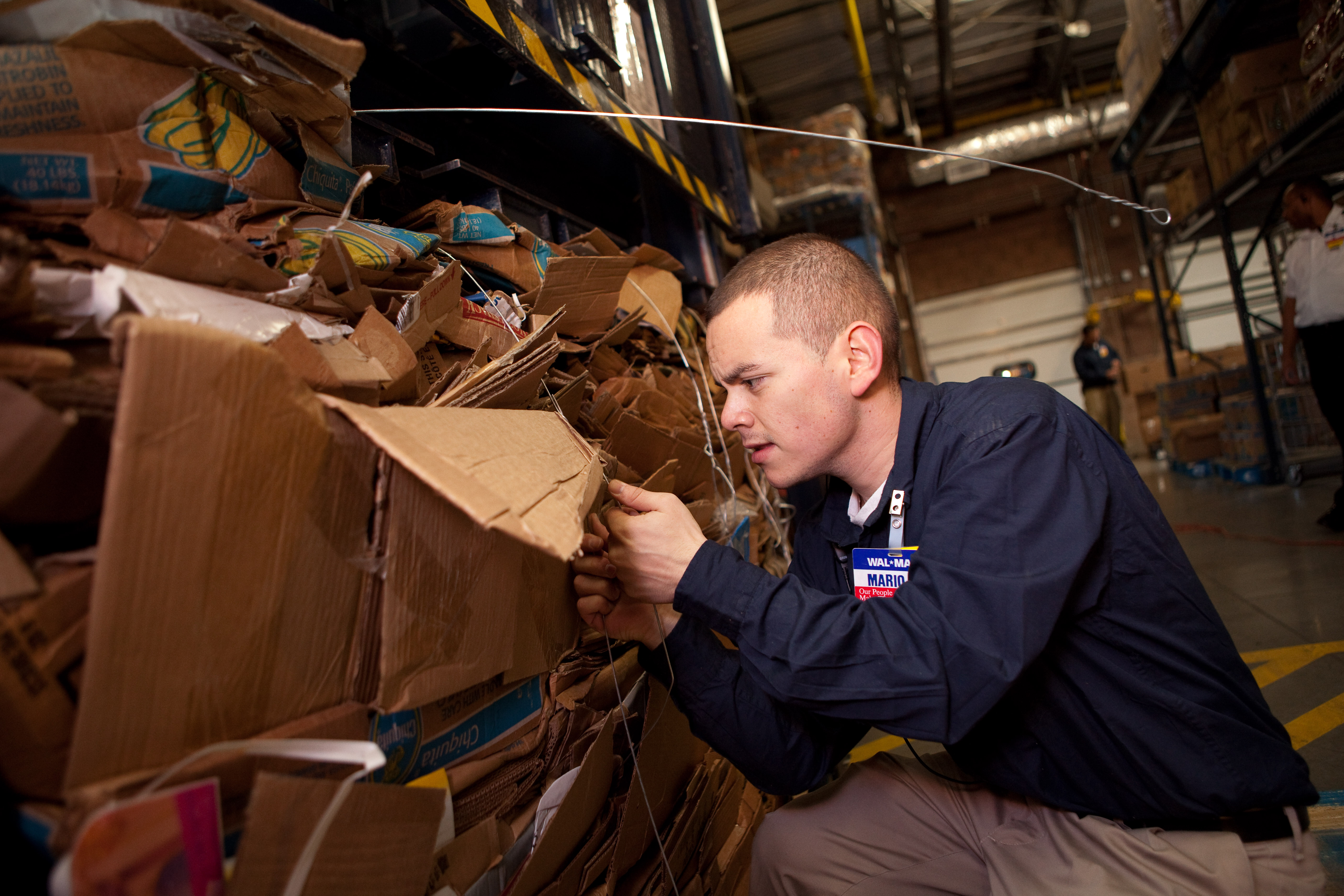 Walmart’s company-wide goal is to create zero waste. Corrugated cardboard is bundled into bales and sent to paper mills to be recycled into new paper products. In 2009, Walmart and Sam’s Club recycled 4.6 billion pounds of cardboard.